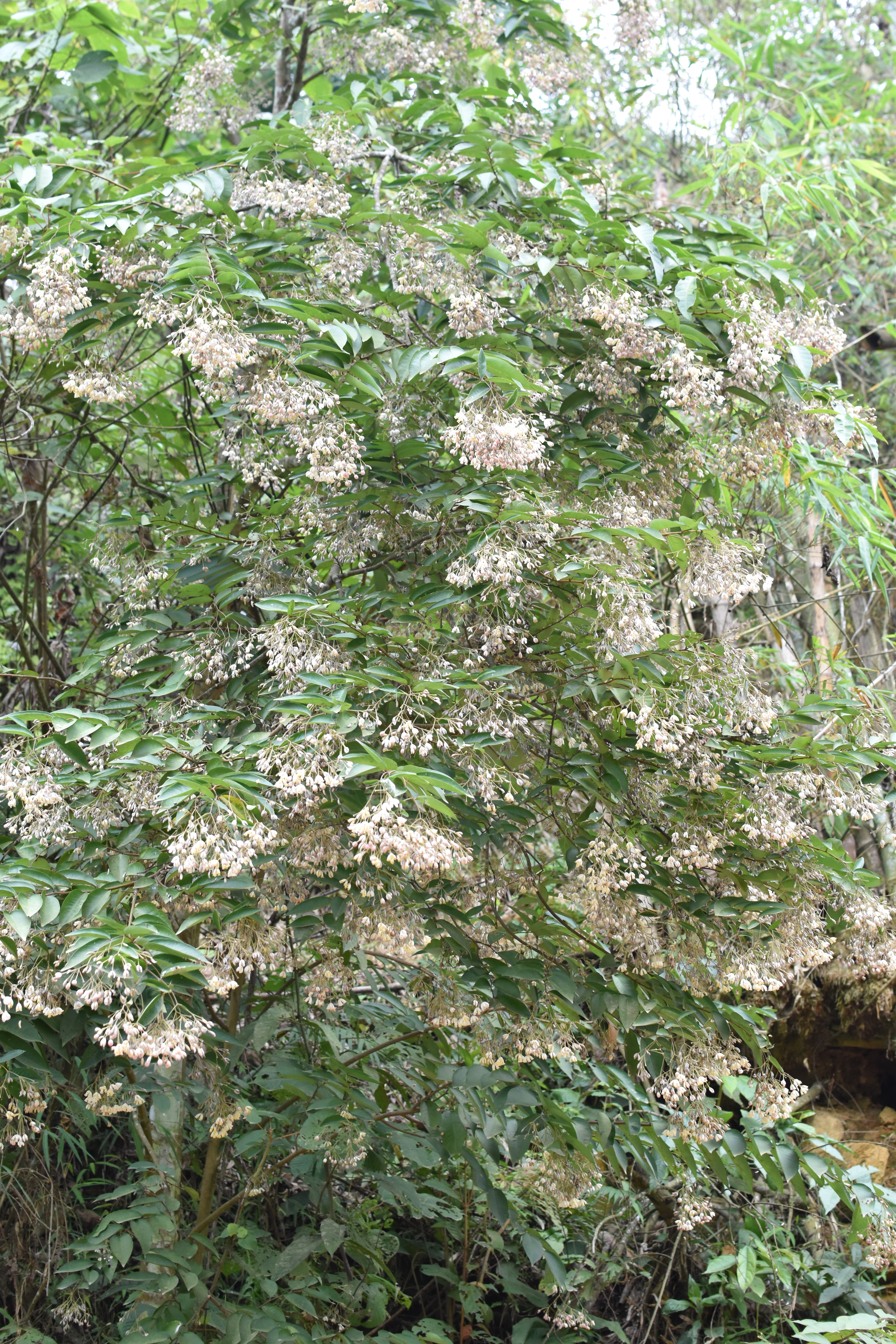 Rhamnoneuron balansae in flower, Da Bac, Hoa Binh Province, Vietnam